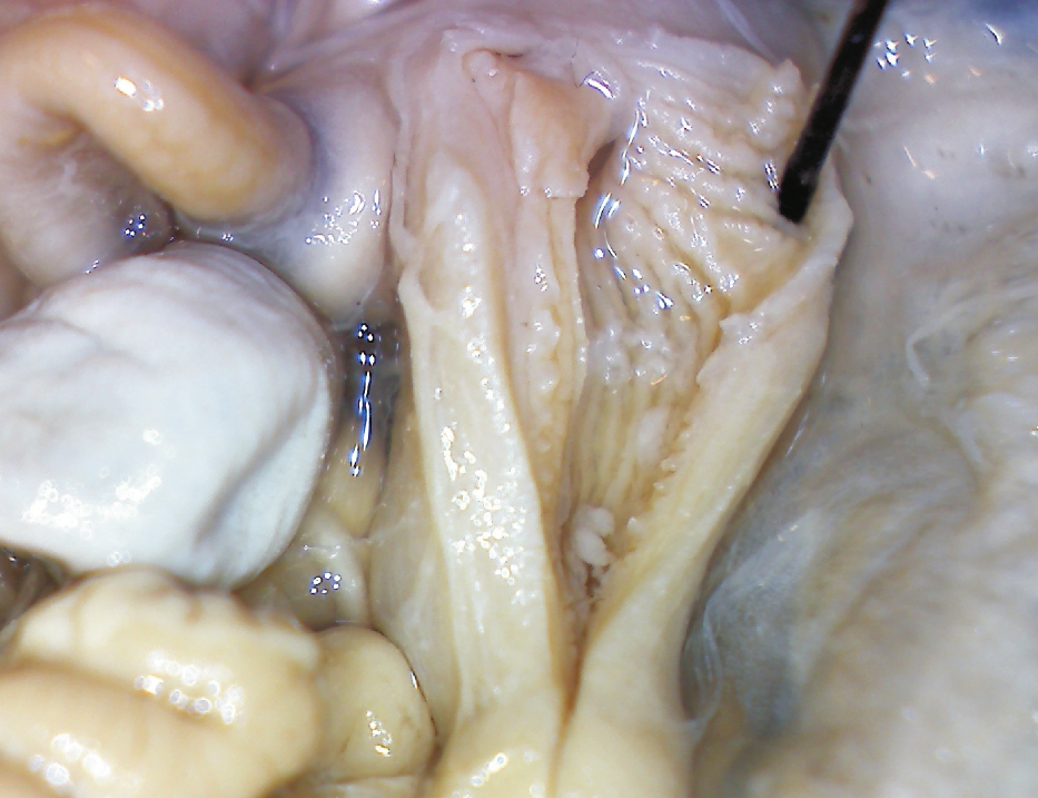 Photo of reproductive system of Arion vulgaris showing long folds (ligula) inside the oviduct. Locality: Timuşu de Sus, Romania.